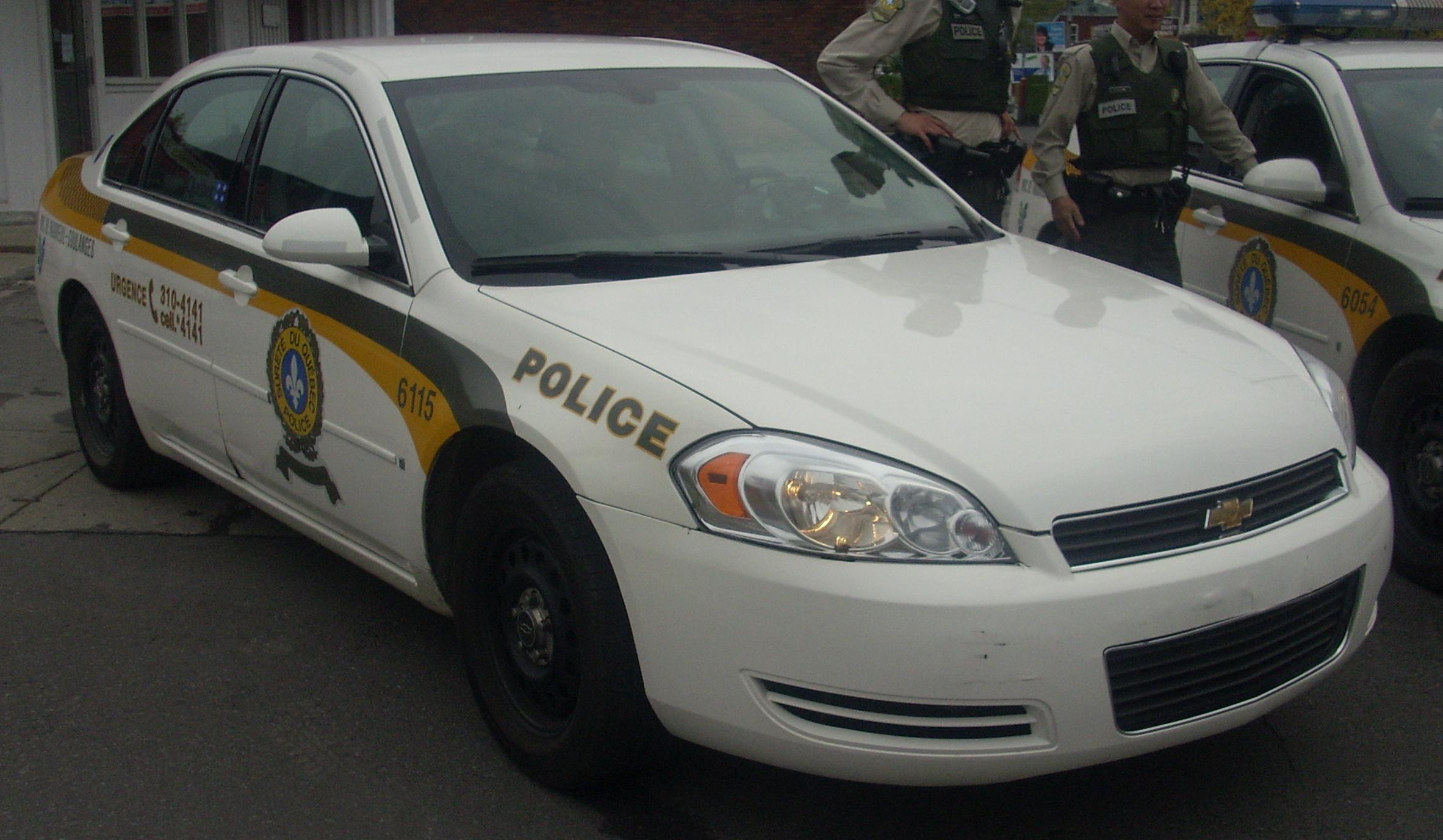 2006-present Chevrolet Impala photographed in Vaudreuil-Dorion, Quebec, Canada.